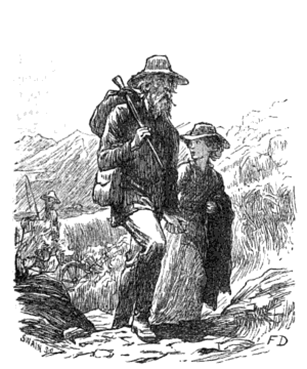 Illustration of the opening scenes of the novel Erema by R. D. Blackmore. Drawn by Frank Dicksee. Picture is from The Cornhill Magazine, November 1876, page 1.